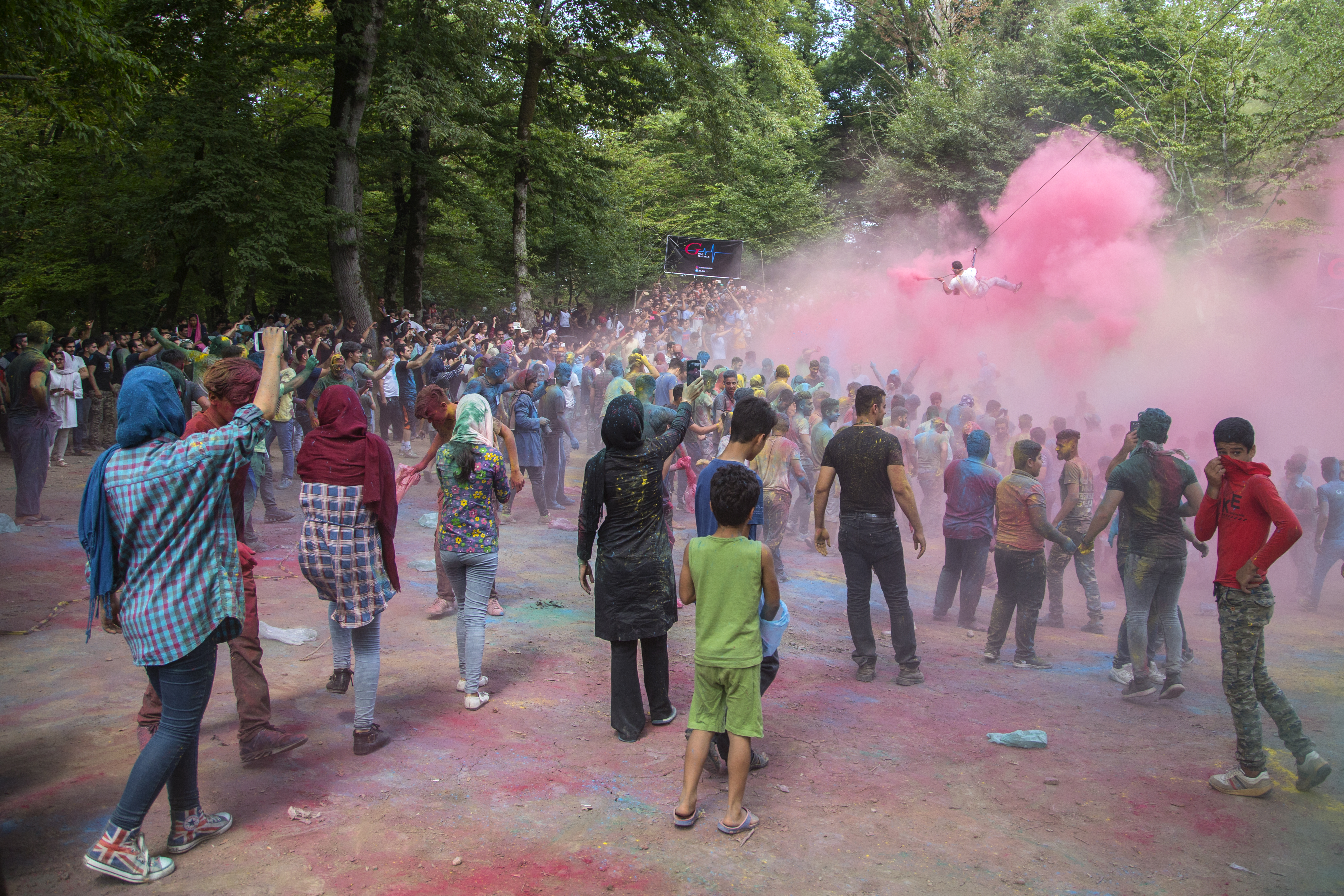 Gorji Mahalleh (Persian: گرجي محله, also Romanized as Gorjī Maḩalleh) lit. translation; "Georgian quarter", is a village in Kuhestan Rural District, in the Central District of Behshahr County, Mazandaran Province, Iran. At the 2006 census, its population was 5,953, in 1,553 families. The residents of this village are originally from Georgia after Shah Abbas I obliged several of their ancestors to migrate to this place as defenders against othomons and russians. Gorji means Georgian in Persian pronunciation and Gorji mahalleh means the place that georgian people live. The people of Gorji mahalleh are known for being great musicians.